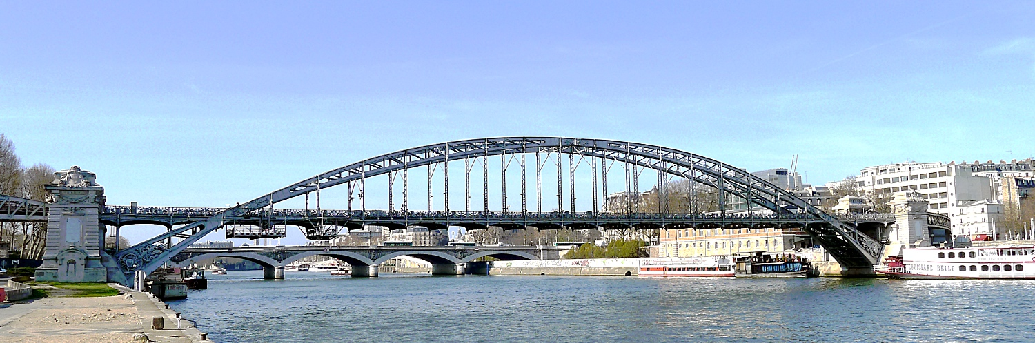 Viaduc d'Austerlitz - Paris